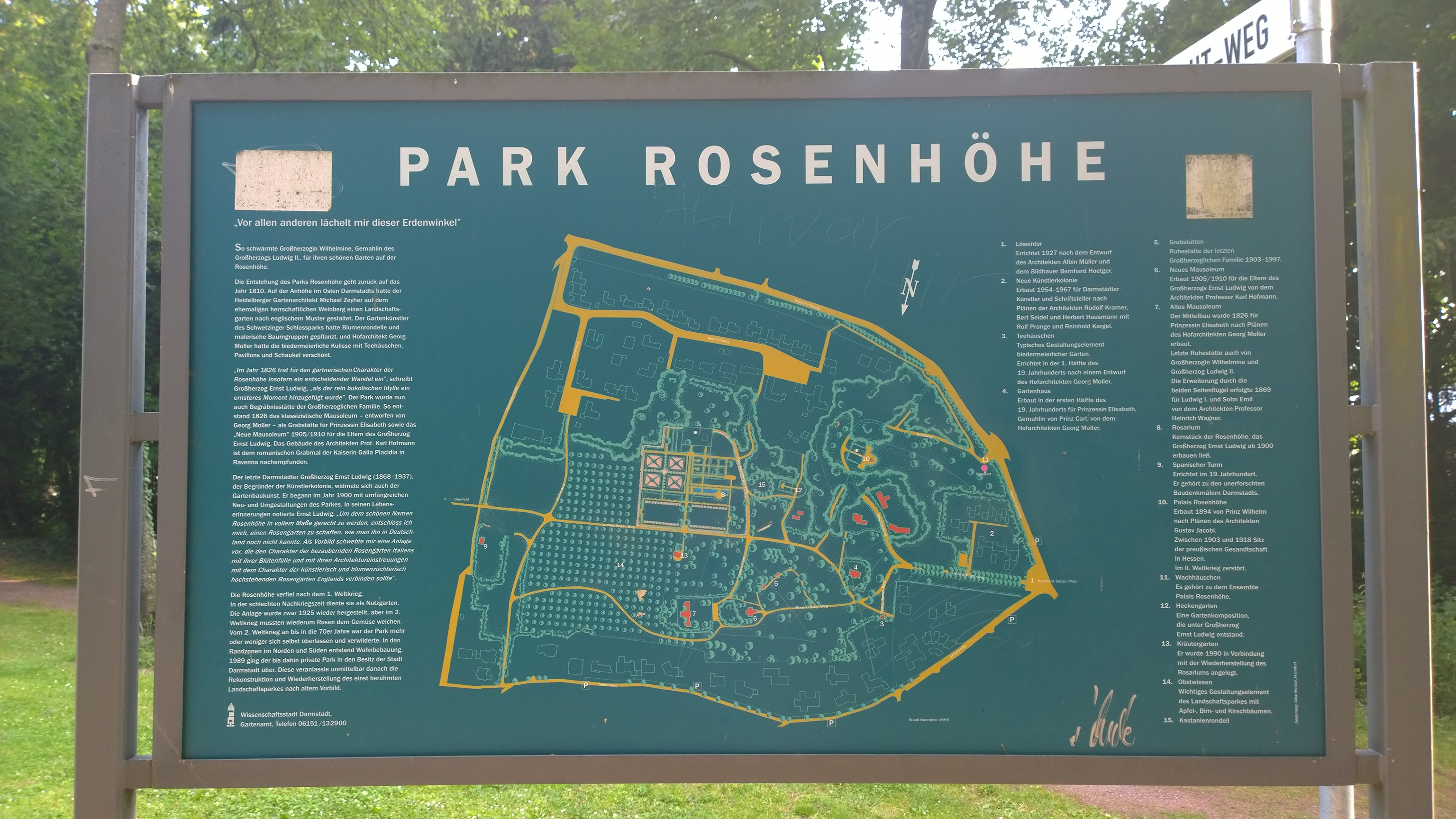 Visitor's panel for the park with notification for the palace